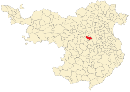 Fontcuberta